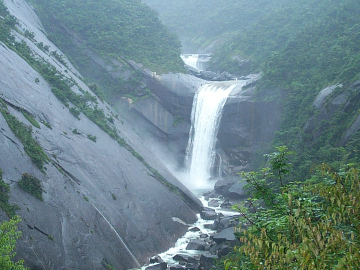 Senpiro Fall in Yaku Island,Japan.